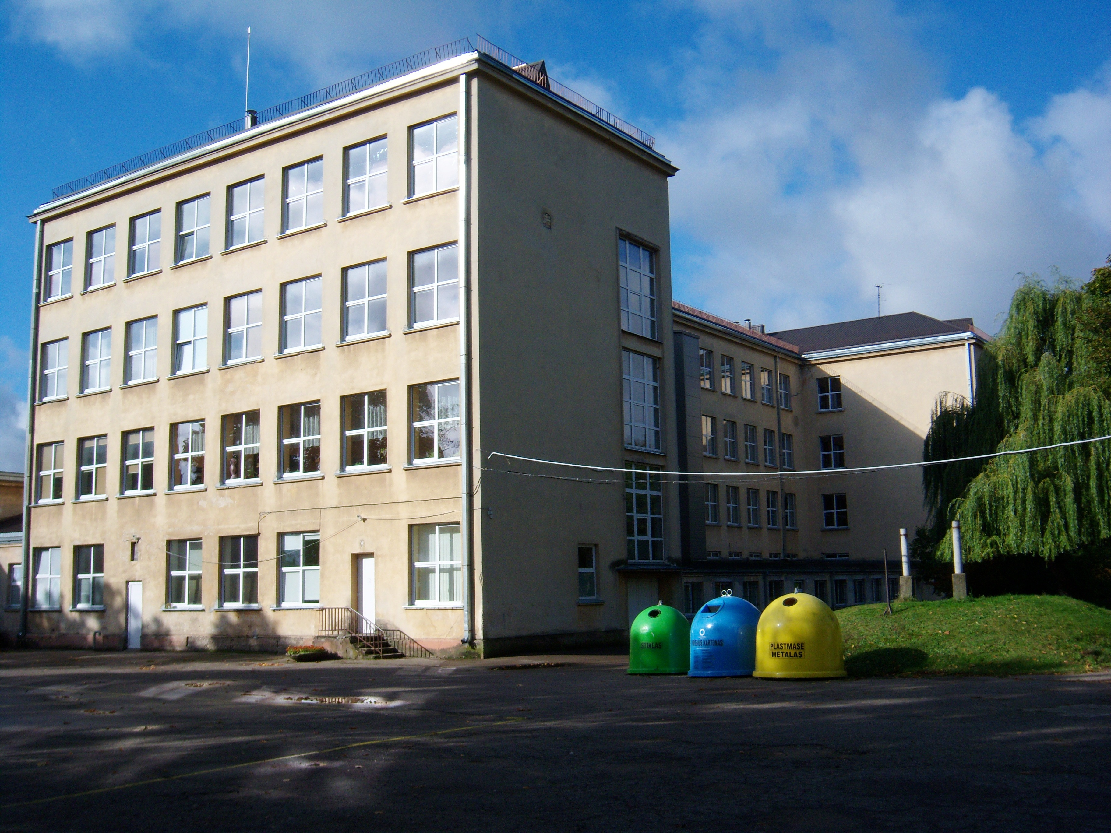 Veršvai Secondary School, Kaunas, Lithuania